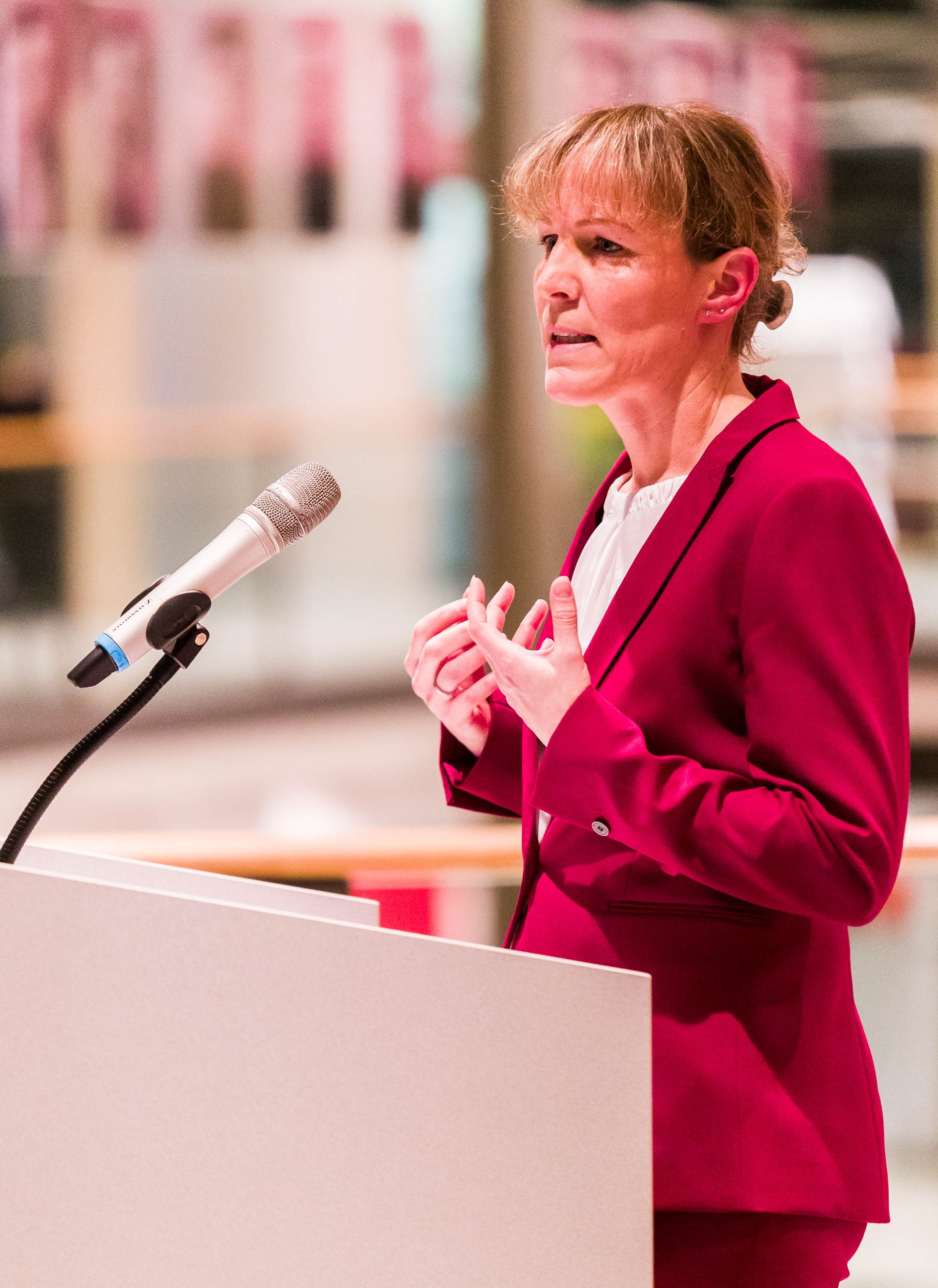 Location: Theatre Hof, 2020